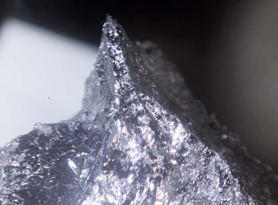 Black crystal aggregates of the rare zirconium mineral zirconolite. The specimens from this locality (Palabora Mine, Loolekop, Phalaborwa, Limpopo Province, South Africa) are rich in niobium. Ex.Hartel collection.